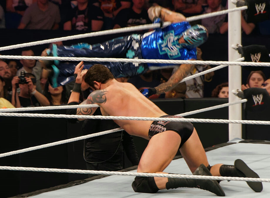 Mysterio 619